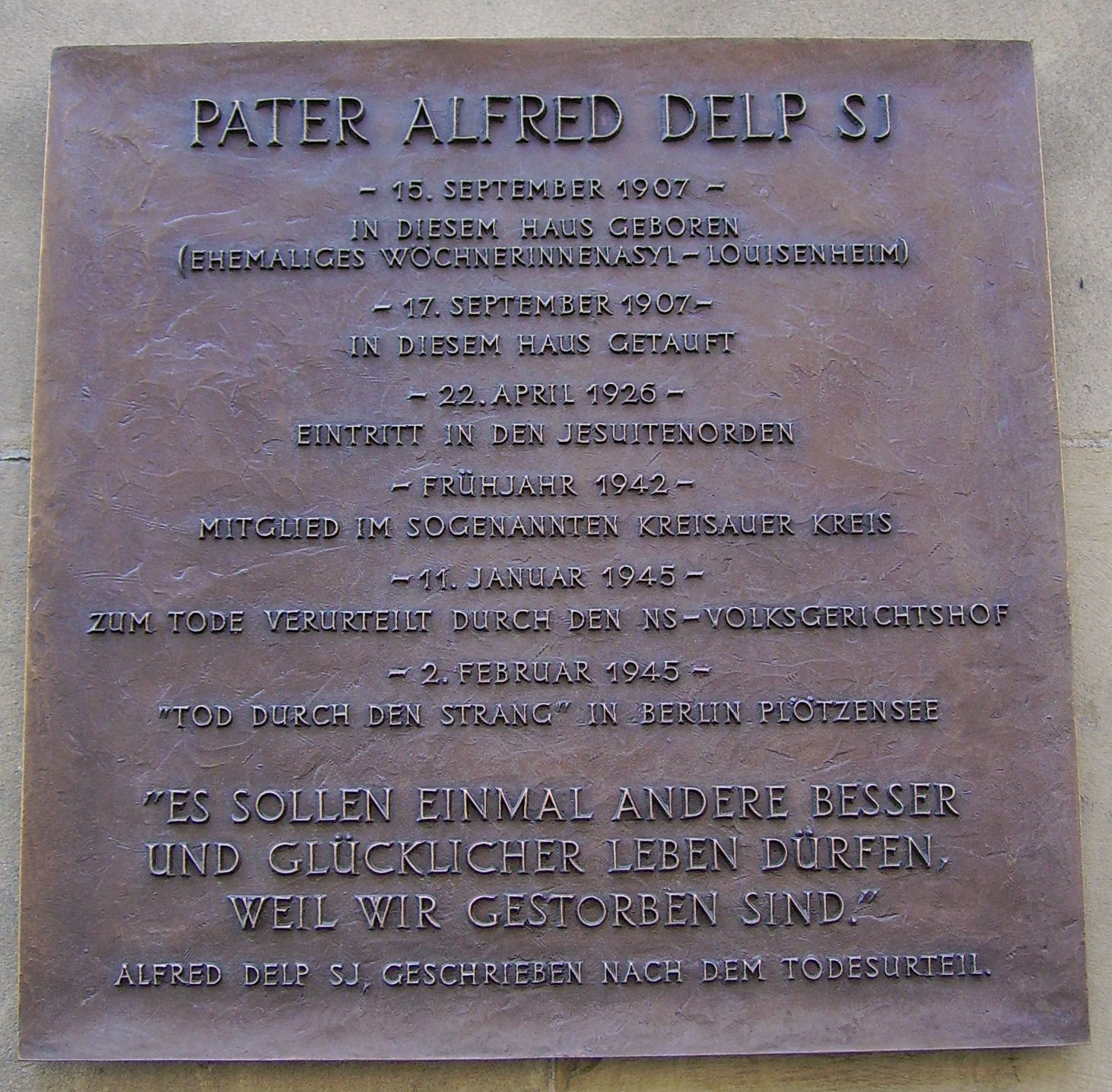 view of Mannheim, Germany